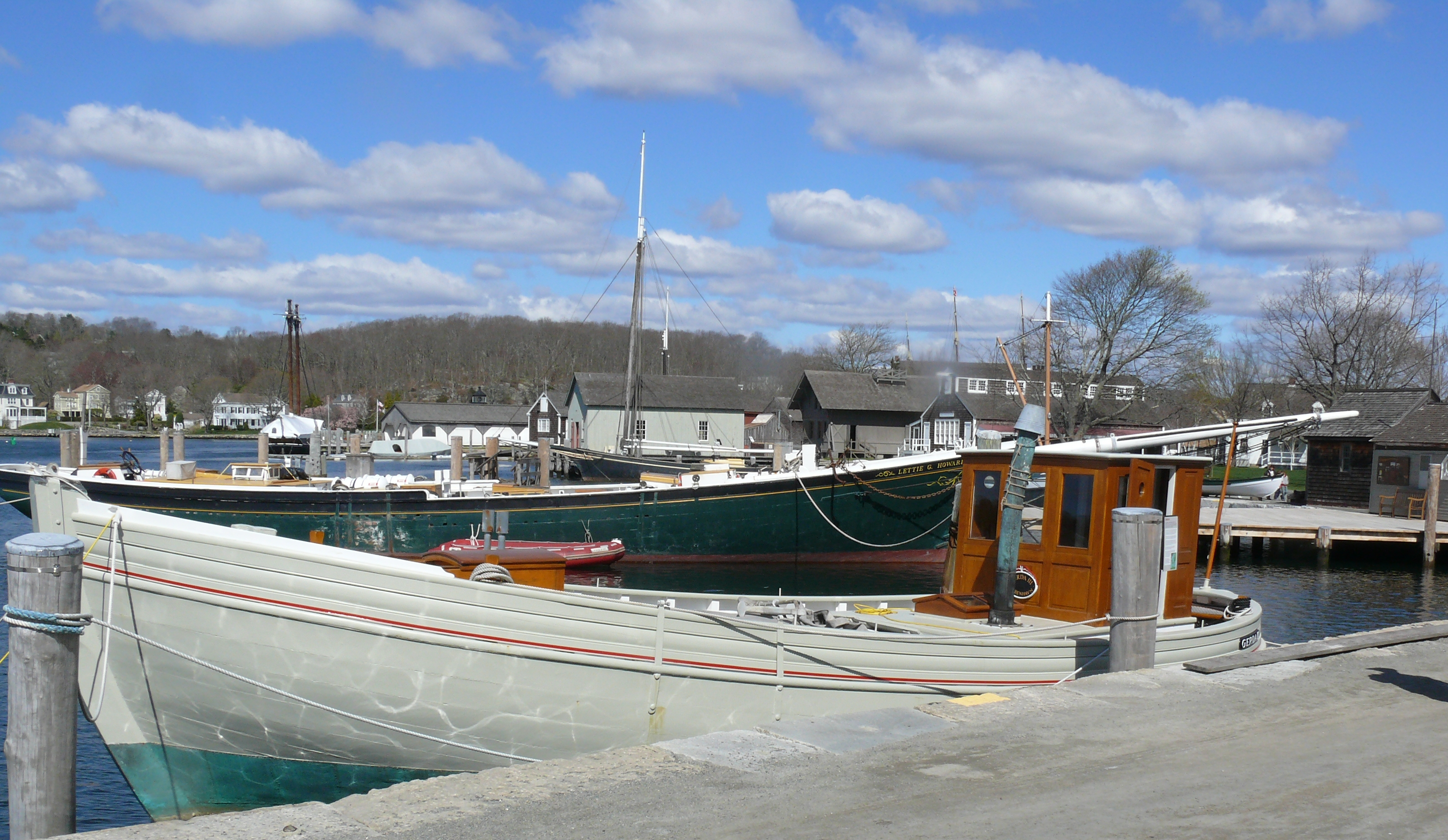 Gerda III was built in 1928 for the Danish Lighthouse and Buoy Service. From October 1943 Gerda II was used to ferry Jewish refugees from German occupied Denmark to neutral Sweden. With a group of some ten refugees on board the vessel set out for her official lighthouse duties, but detoured to the Swedish coast. The little ship and her crew (Skipper Otto Andersen, John Hansen, Gerhardt Steffensen and Einar Tønnesen), ferried some 300 Jews to safety.